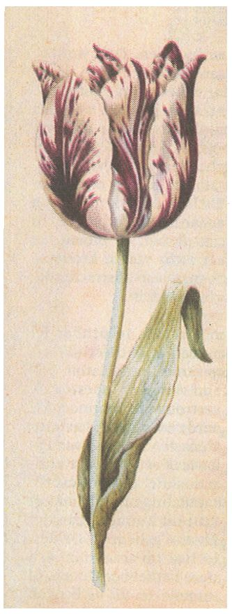 Drawing (watercolour) of a tulip by Anthony Claesz